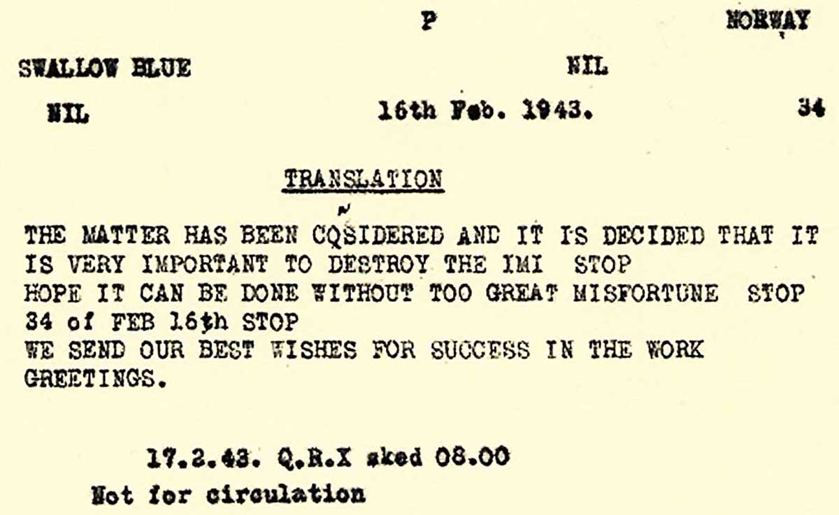 NOVA says on thisone, 4-of-7 "Several of the telegrams have been slightly altered to remove the original Norwegian and to tighten elements on the page." In other words: Originally Norwegian conversation was afterwards translatet for SOE. I hereby publish this crucial one sheet (4 out of 7), beeing convinced that (a) it is either an undisclosed document, or (b) NOVA cheated (which seems quite unlikely). So, in any case this file is either PD, or PD. In cased I am a sucker: Shame on me. Otherwise, it is of some public use. The publisher moreover notes: The year, given here as 1943, is a transcriber's error.' [Obviously, sabotage was executed on February 18/19, 1944].